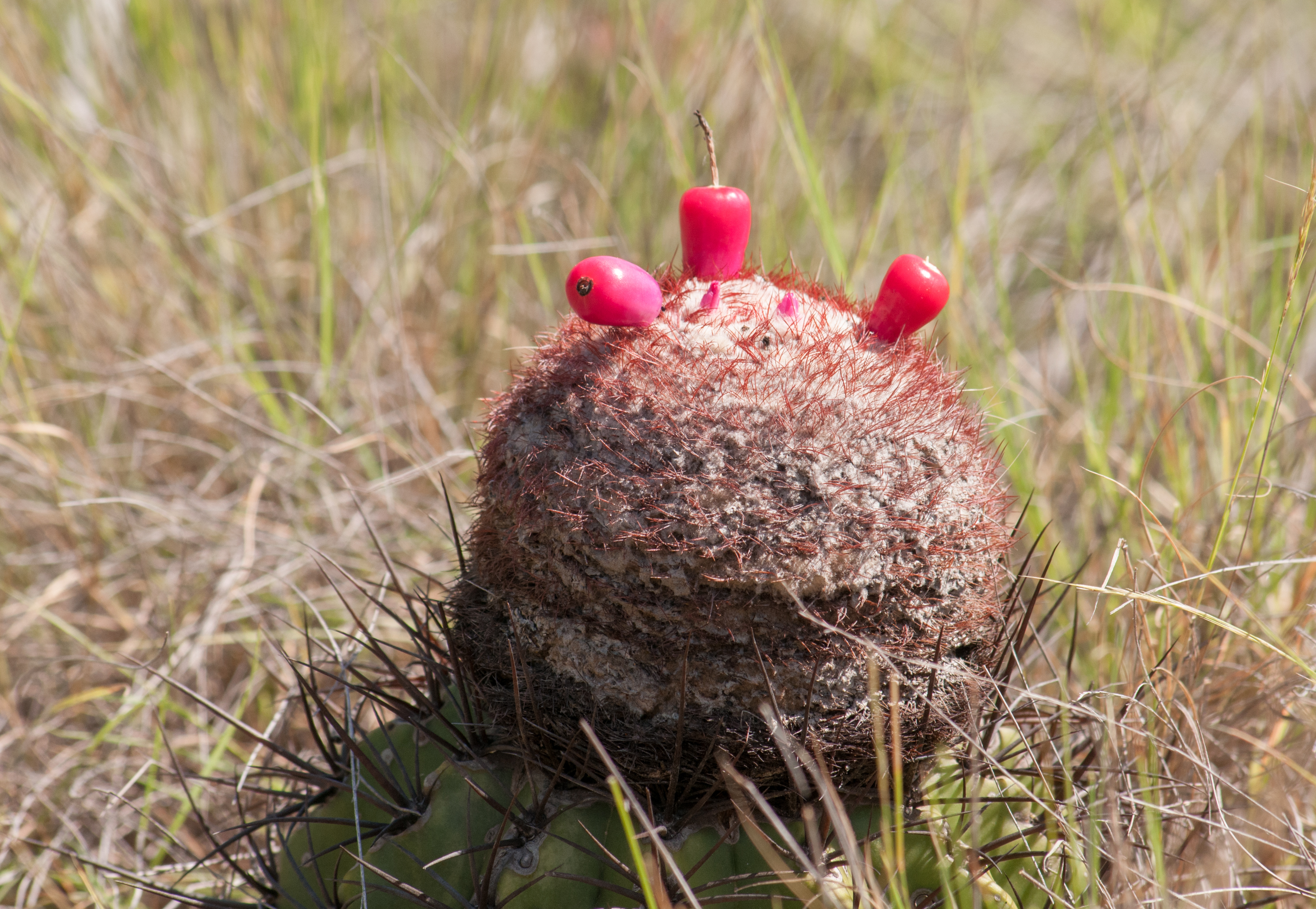 Melocactus curvispinus fruit in Margarita isla.